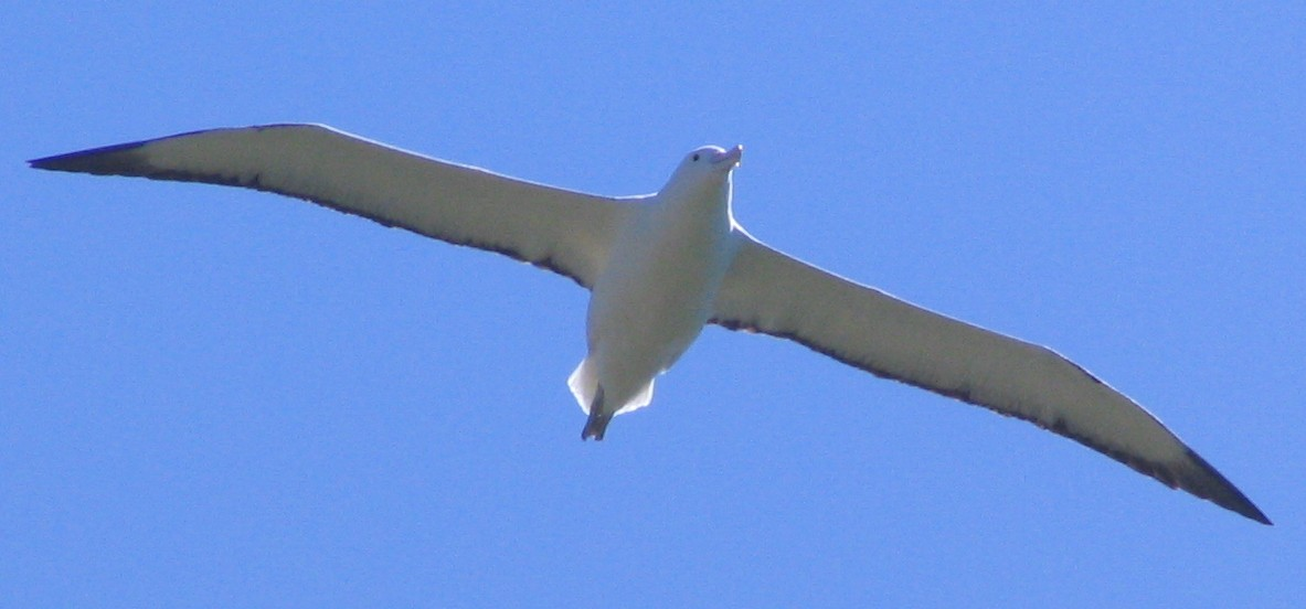 Northern Royal Albatross in flight at Taiaroa Head, Dunedin, New Zealand. Query juvenile